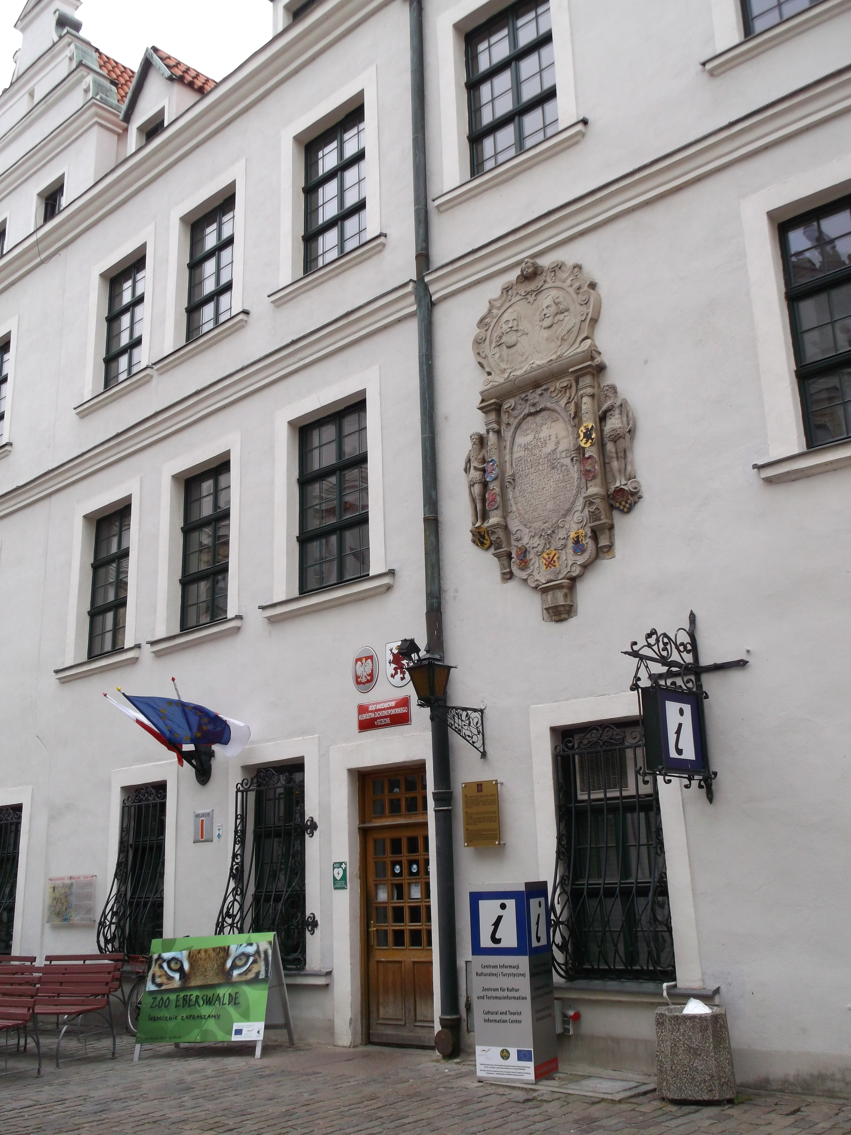 The Pomeranian Dukes Castle in Szczecin, Poland (15-19th century). The Philip's Building now used by the Cultural and Tourist Information Center